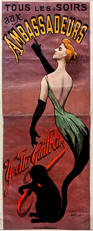 Yvette Guilbert aux Ambassadeurs, lithographic poster by Henri Dumont, printed by Affiches américaines (Paris).